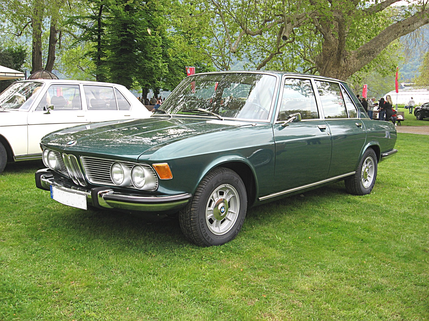 Subject:BMW 2500 Author:Luc106 Date:April 27th, 2008 Event:Concorso d’Eleganza”Villa d’Este” 2008 Place/Country: Cernobbio (CO), Italy I release all rights in the public domain.